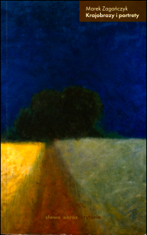 Marek Zagańczyk "Krajobrazy i portrety"